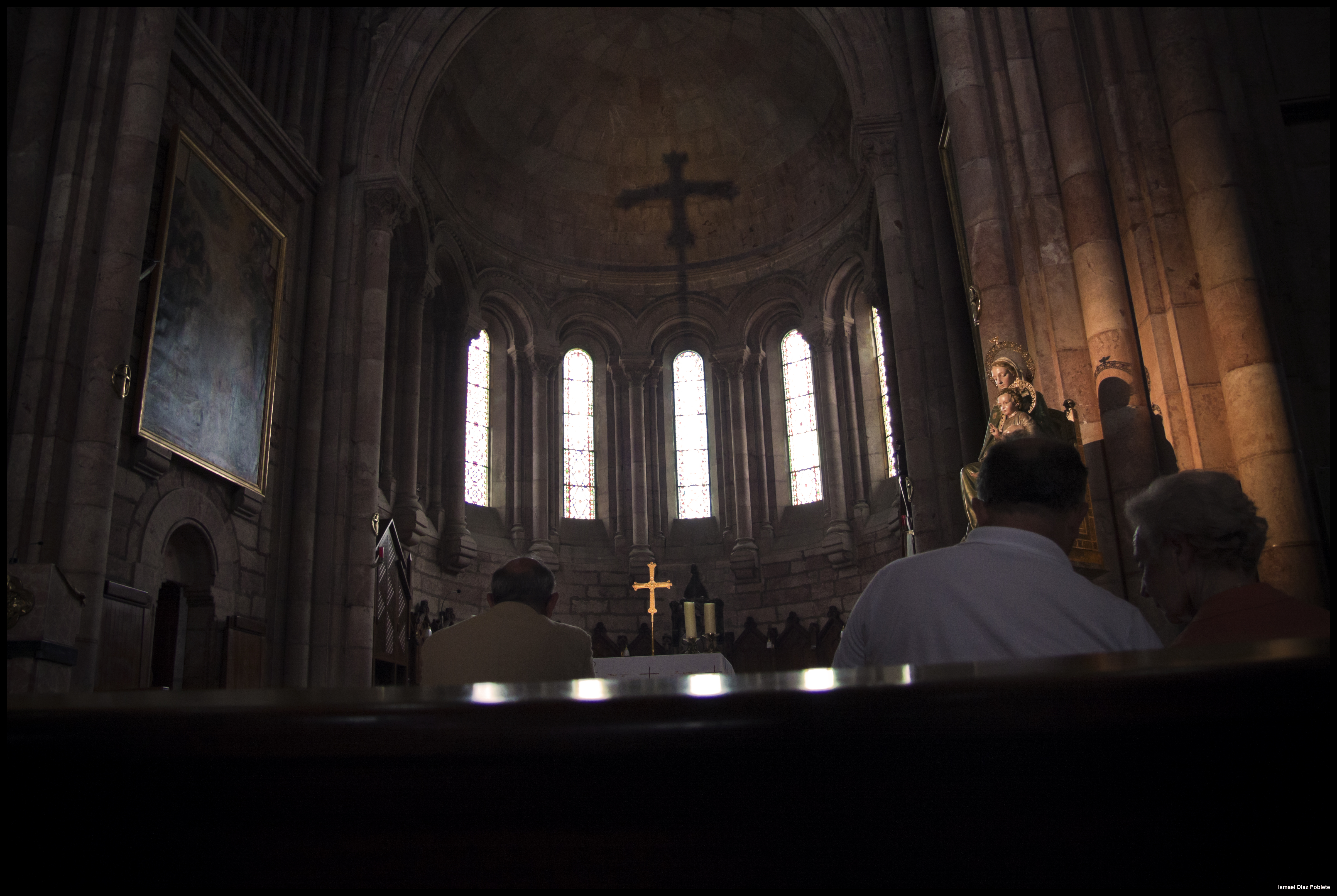 Scene from inside the Basilica of Santa Maria la Real de Covadonga (Asturias). Eclectic style (neo-Romanesque and Gothic) was built in the late nineteenth and early twentieth centuries.